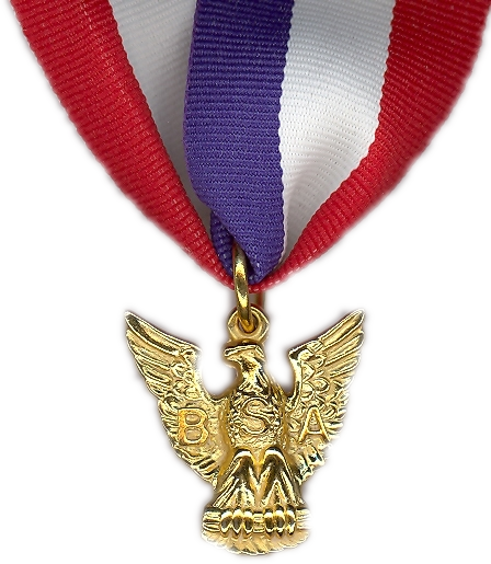 Personal scan by Wikipedalist, Distinguished Eagle Scout Award (Boy Scouts of America) (DESA) honoree.